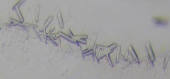 Example of streak seeding with protein crystals.